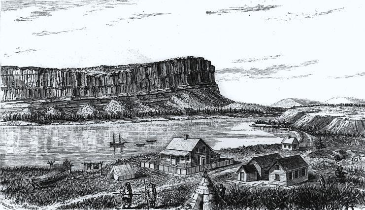 Print, Hudson Bay Post North Bluff, Little Whale River, QC, about 1878, John Henry Walker (1831-1899), Ink on paper mounted on card - Photolithography - 9 x 17 cm